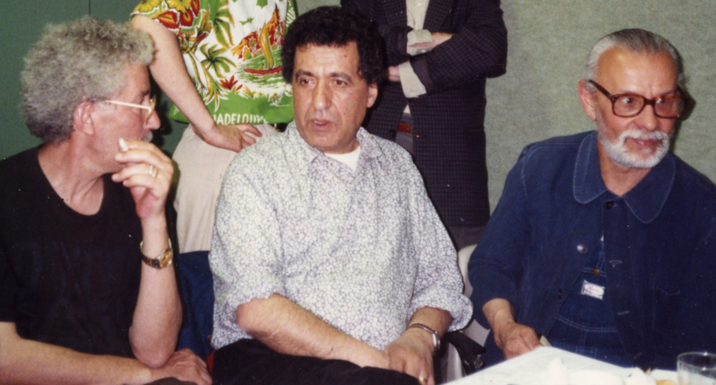 Le poète Malek Alloula, le peintre Abdallah Benanteur, le peintre Mohamed Aksouh en 1993